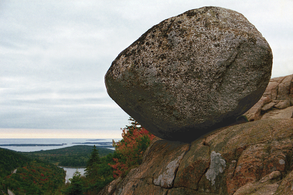 Bubble Rock is a glacial erratic balanced on the edge of South Bubble mountain in Acadia National Park, Maine, United States.